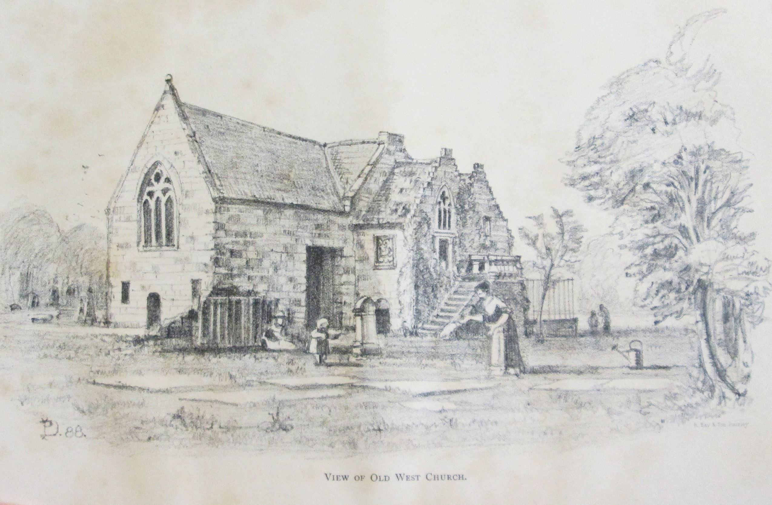 Reconstruction of the Old West Kirk in Greenock, as it was from around 1700 to 1841. Frontispiece from Williamson (1888) Old Greenock: Embracing Sketches of Its Ecclesiastical, Educational, and Literary History.